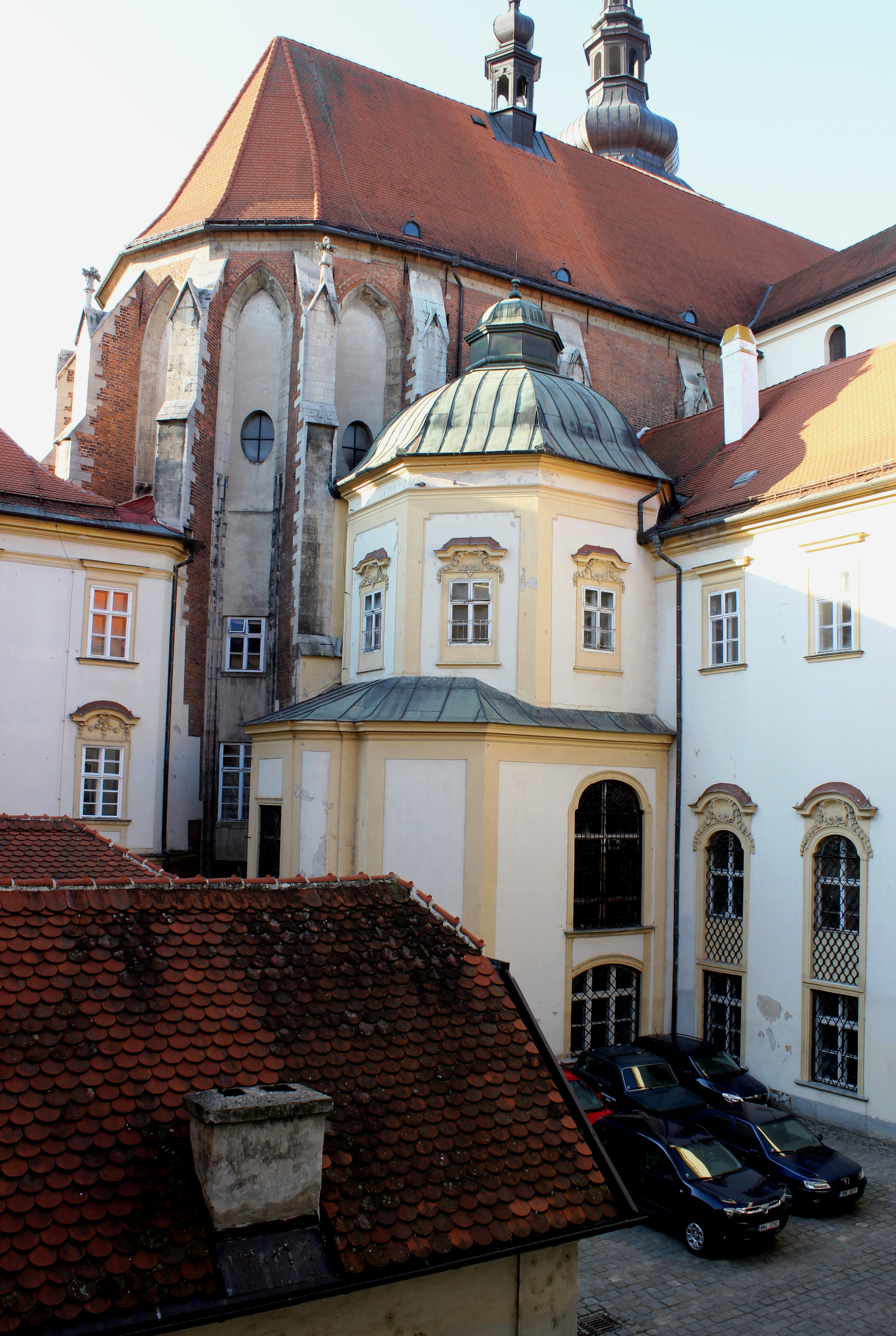 St. Thomas church Brno, presbytery. House of Luxemburg burial - 14th C.